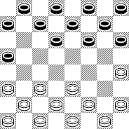 Tabia opening Игра Петрова (Igra Petrova) in russian checkers